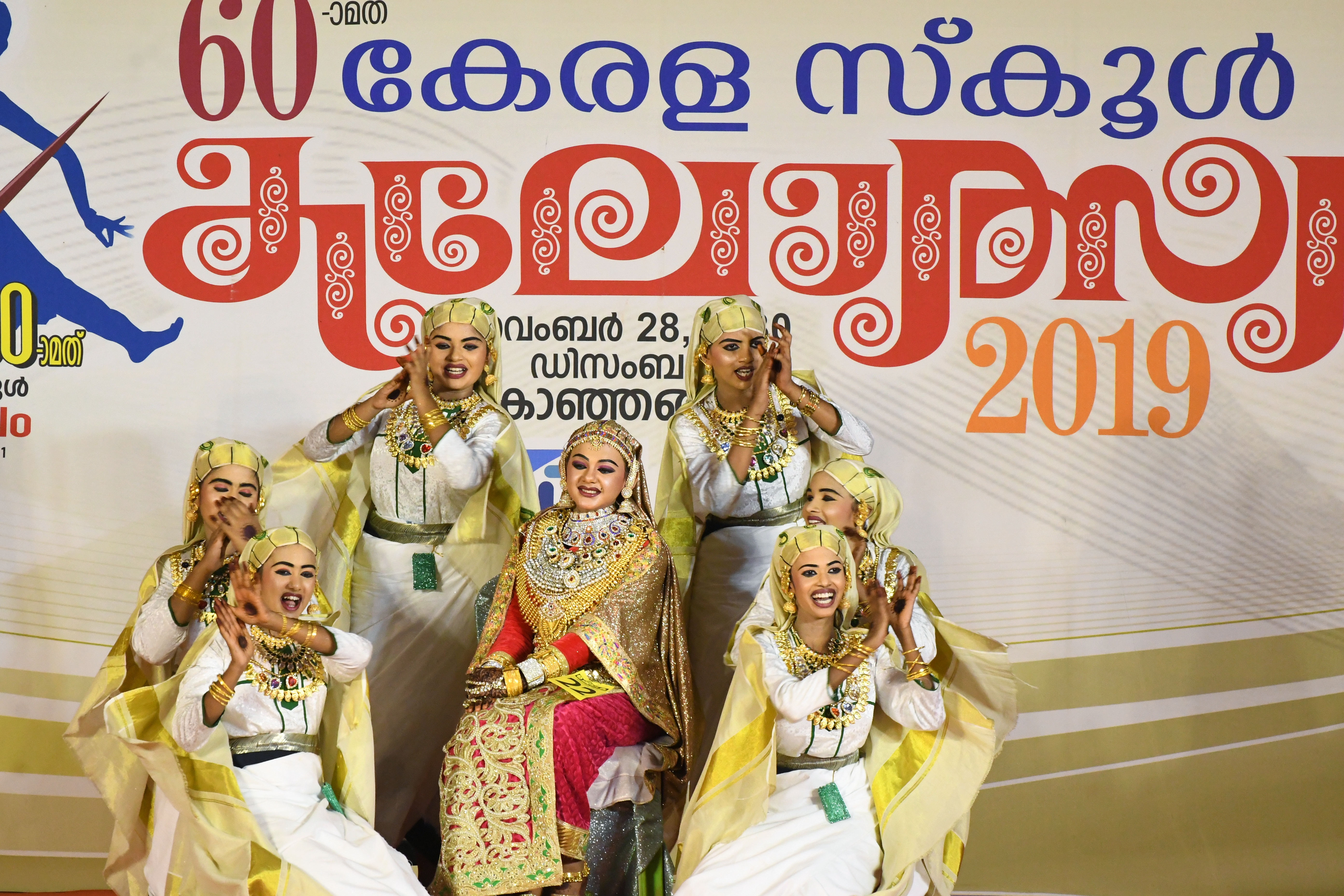 oppana is a traditional art form of muslim culture in Kerala